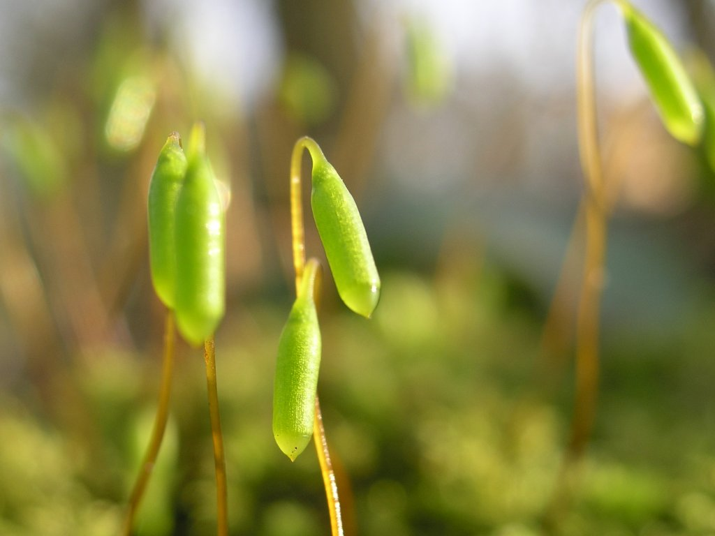 capsules (sporophytes). Probably a Bryum species.